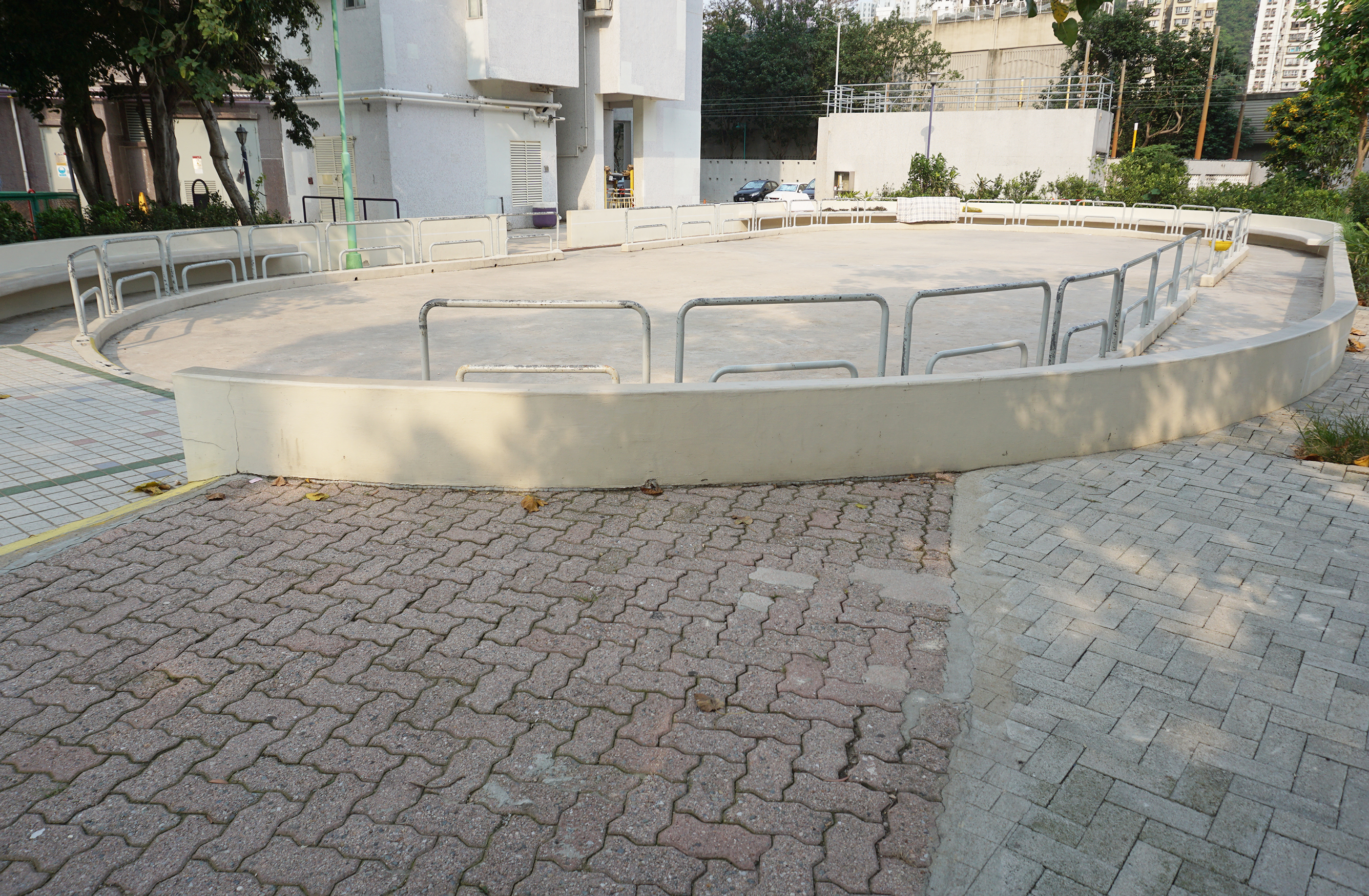 Affluence Garden in Tuen Mun, Hong Kong.